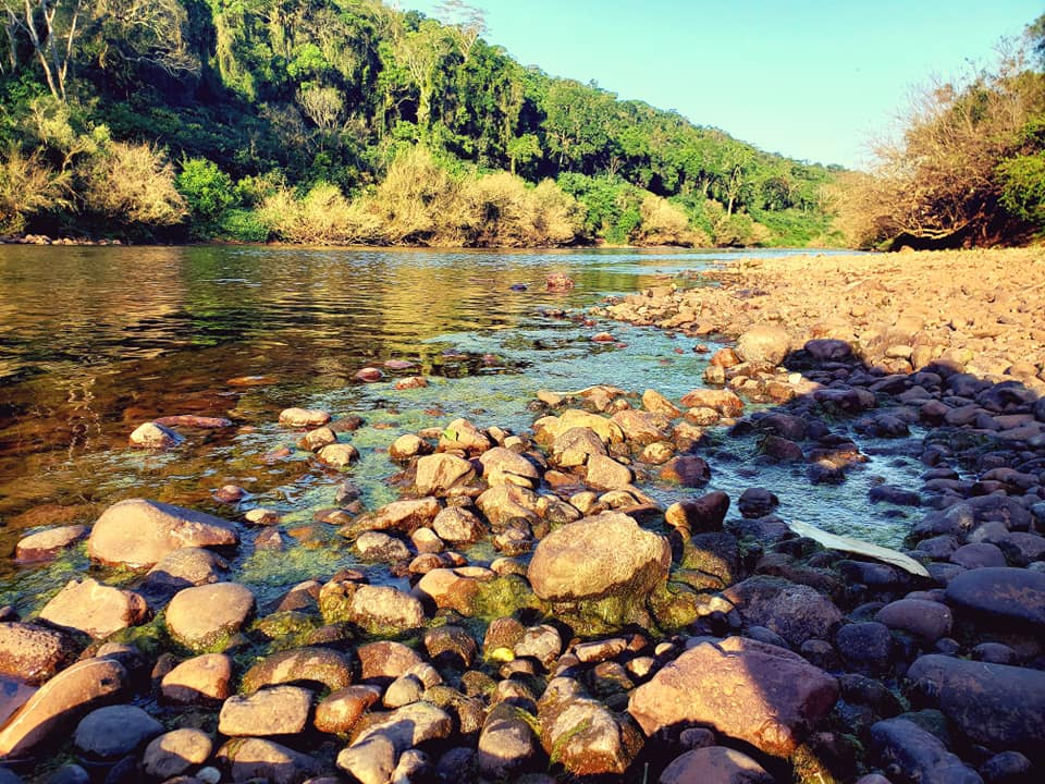 El río Pepirí Guazú en el municipio de Tunápolis en Santa Catarina (BRASIL) marca la frontera entre Brasil y Argentina.